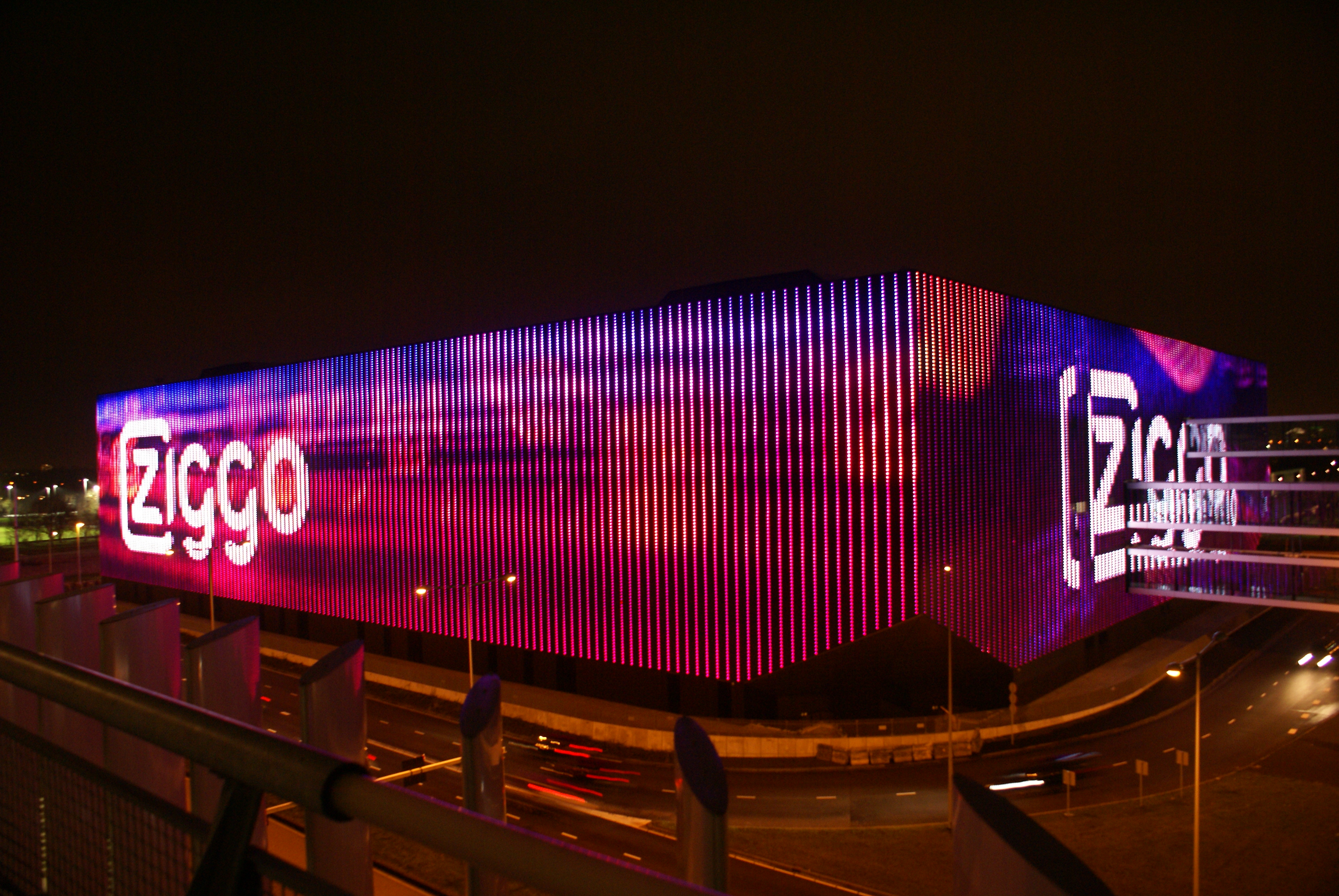 The Ziggo Dome in the Amsterdam Zuid-Oost/Arena area.